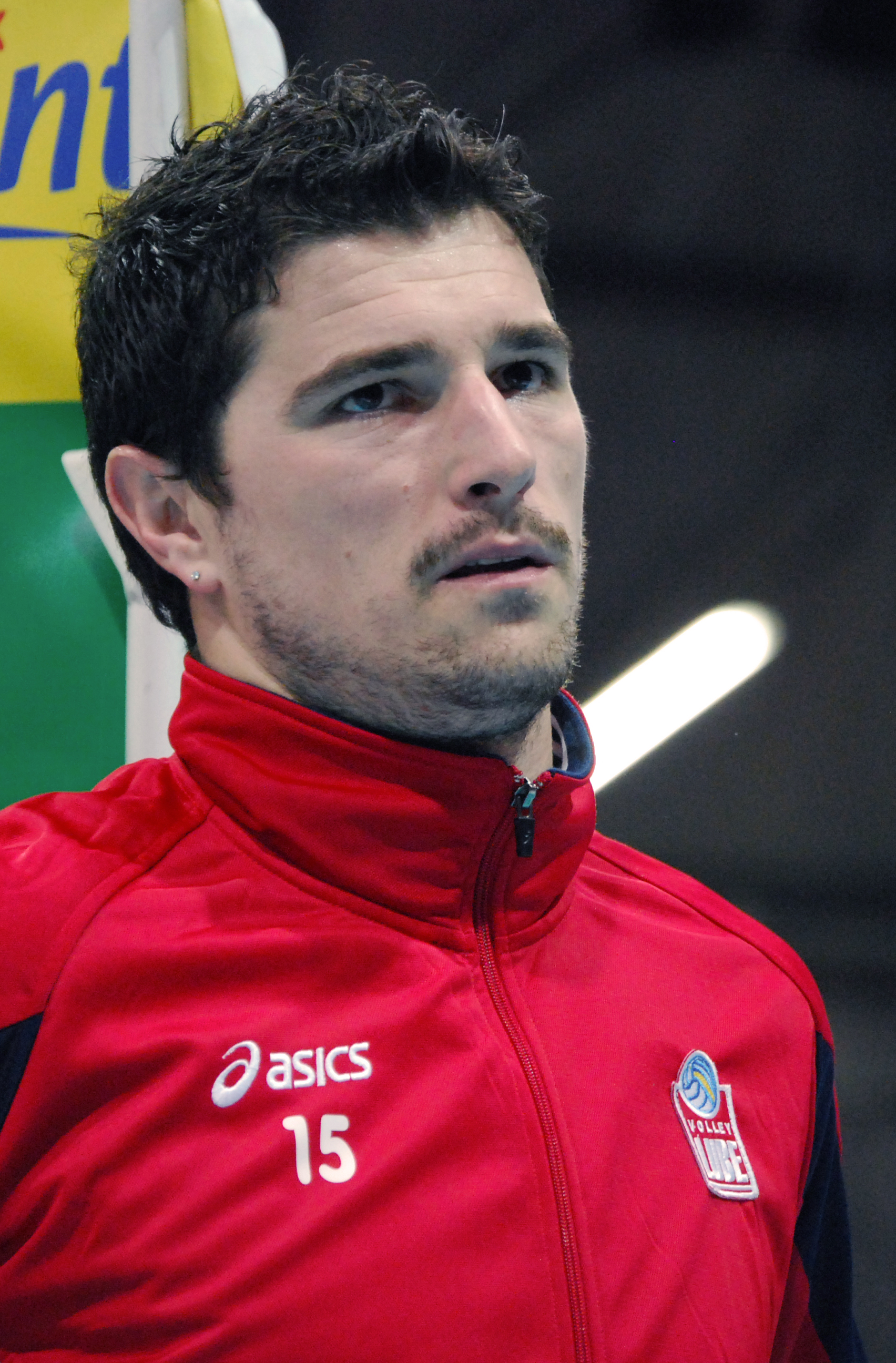 I took this photo during a volleyball match in Piacenza